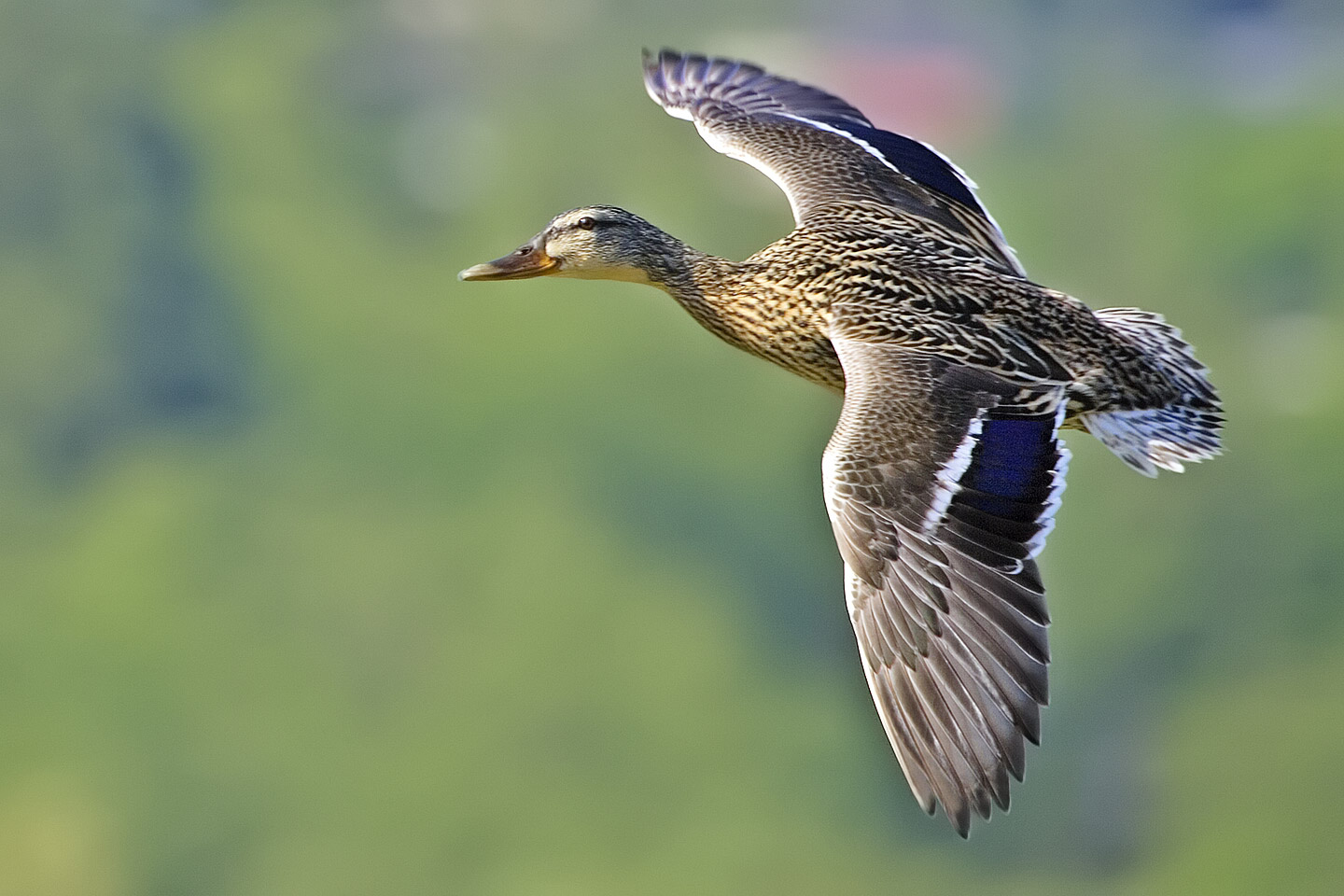 Mallard (Female), Burnaby Lake Regional Park (Piper Spit), Burnaby, British Columbia